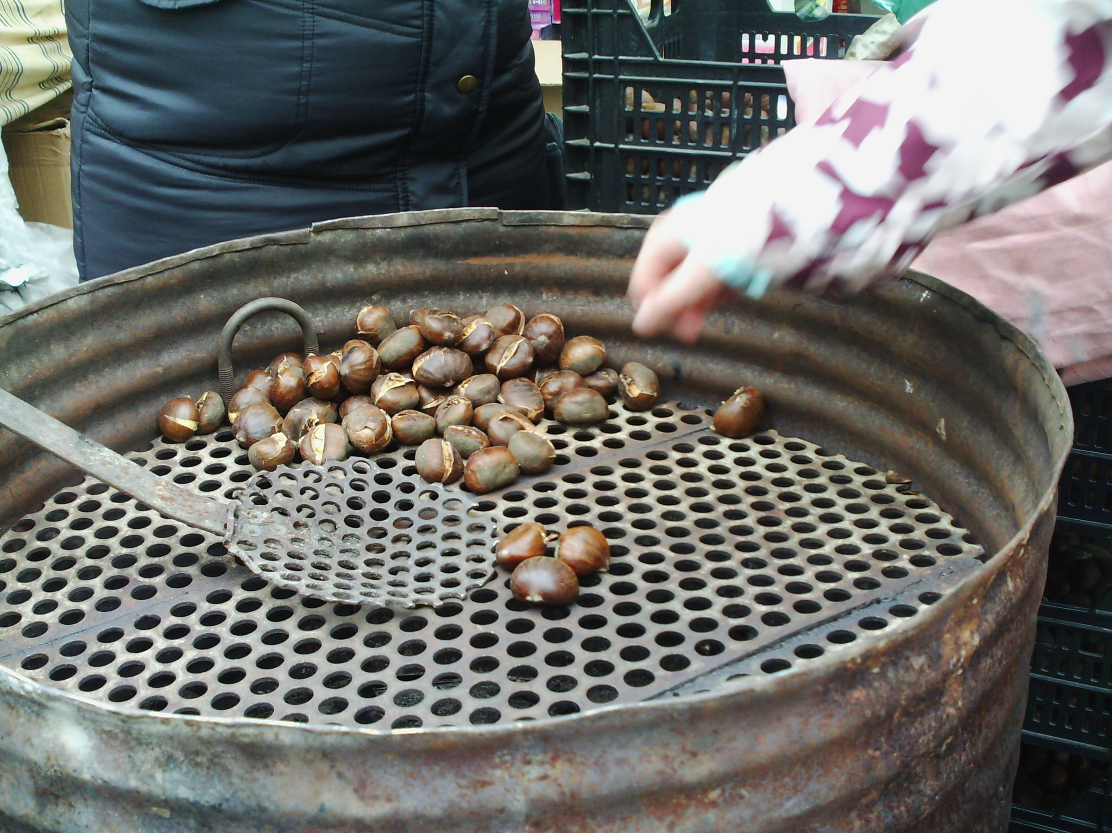 Chestnuts roasted in Santa Luzia fair. Zumarraga, Gipuzkoa. Basque Country.